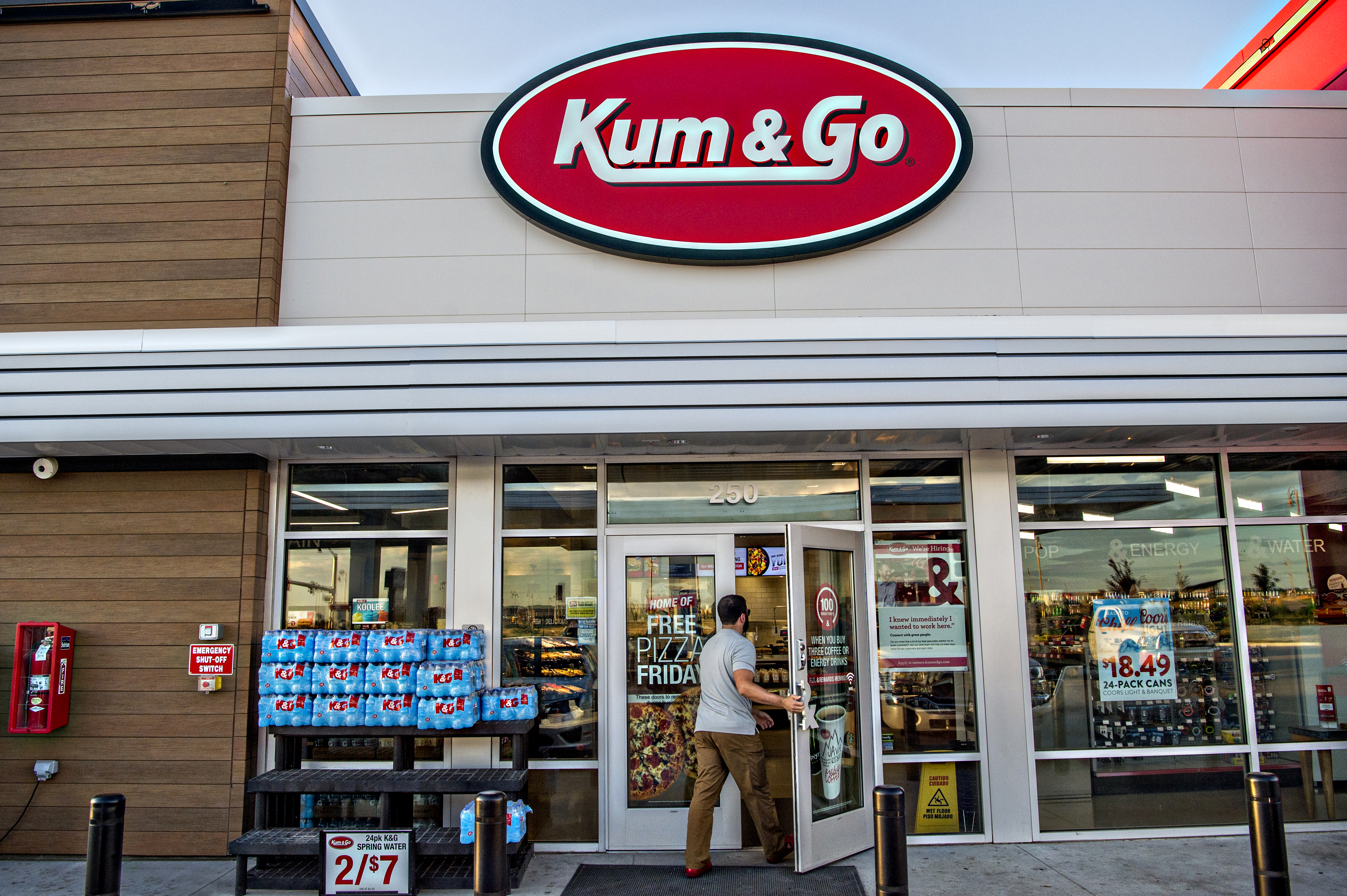 Kum & Go storefront